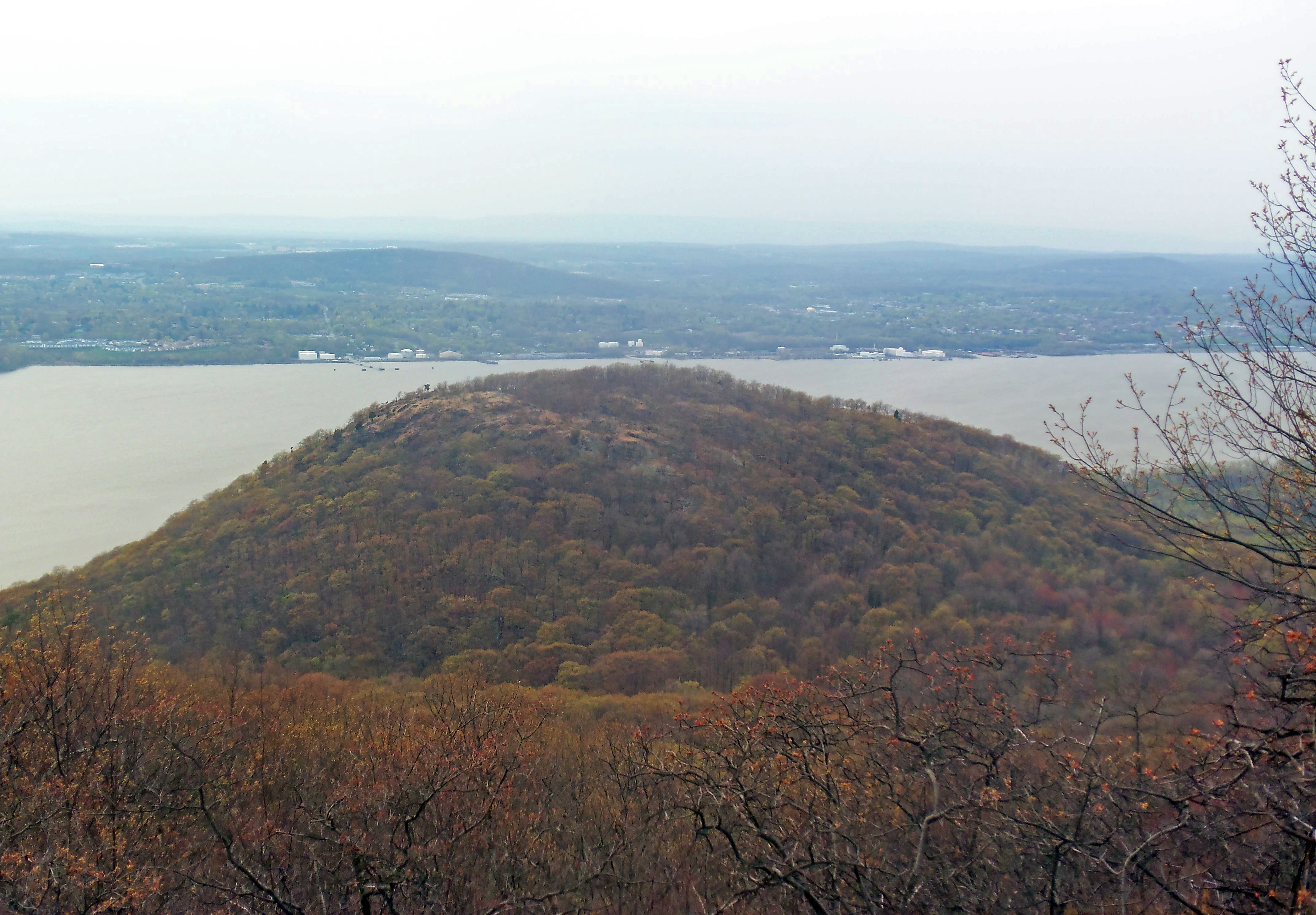 Sugarloaf Mountain in Fishkill, NY, USA, often called Sugarloaf North to distinguish it from Sugarloaf Hill (known in turn as Sugarloaf South) a few miles to the south near Garrison